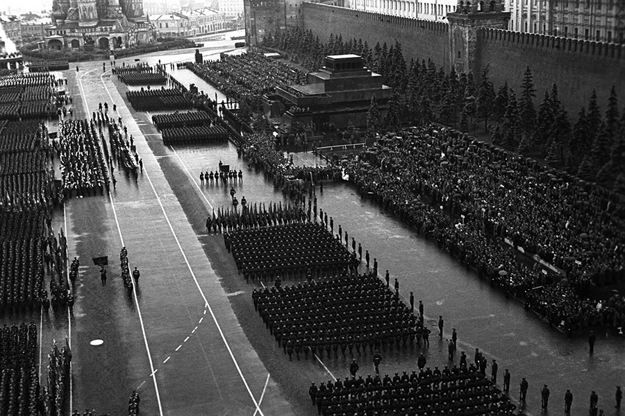 Soviet Victory Parade on Red Square